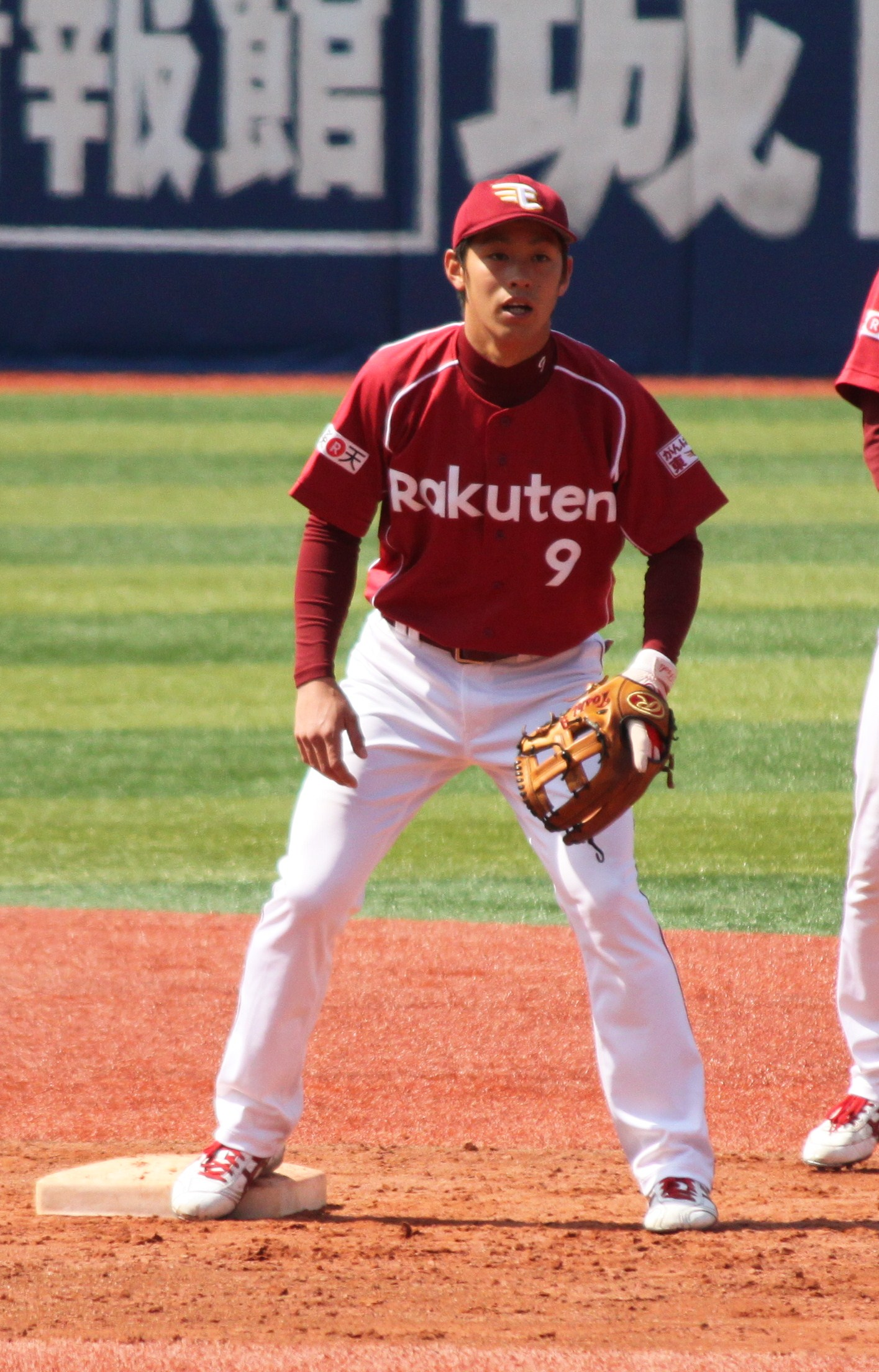 Toshihito Abe, infielder of the Tohoku Rakuten Golden Eagles, at Yokohama Stadium.